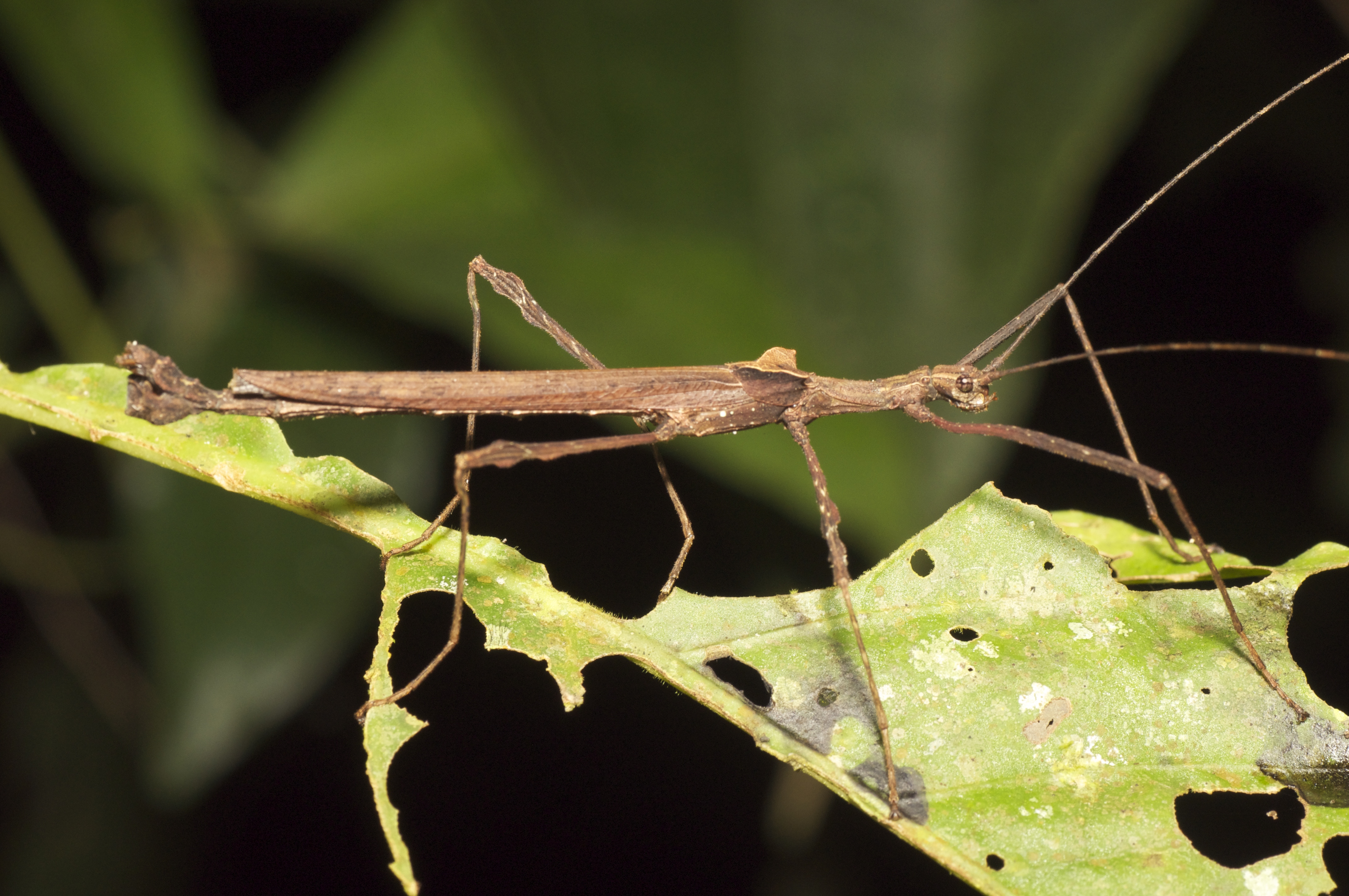 Stick insect